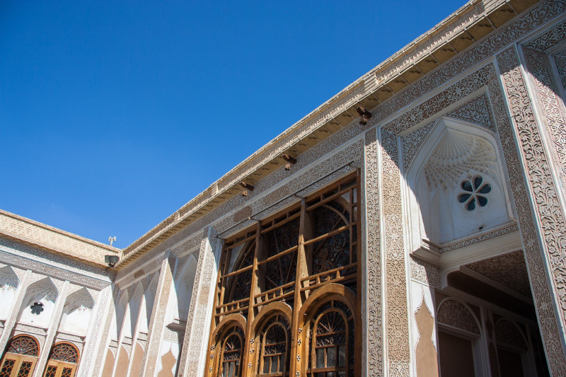 موزه آب یزد عکس: امیررضا توسل